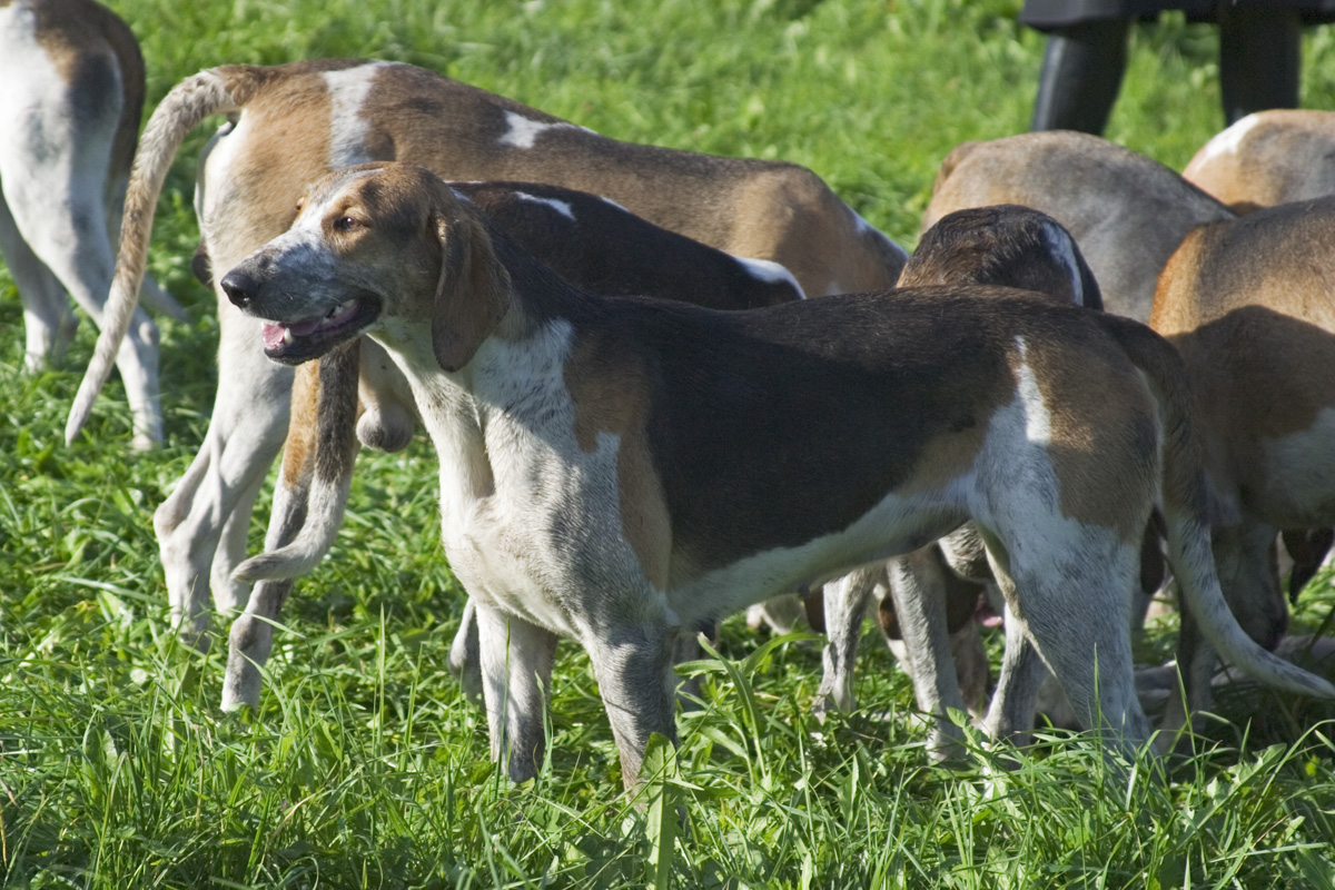 This dog is one of a pack of Grand anglo-français tricolore.